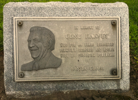 Plaque honoring Gene Harvey, placed in front of the Jackson Mansion in Berwick, PA